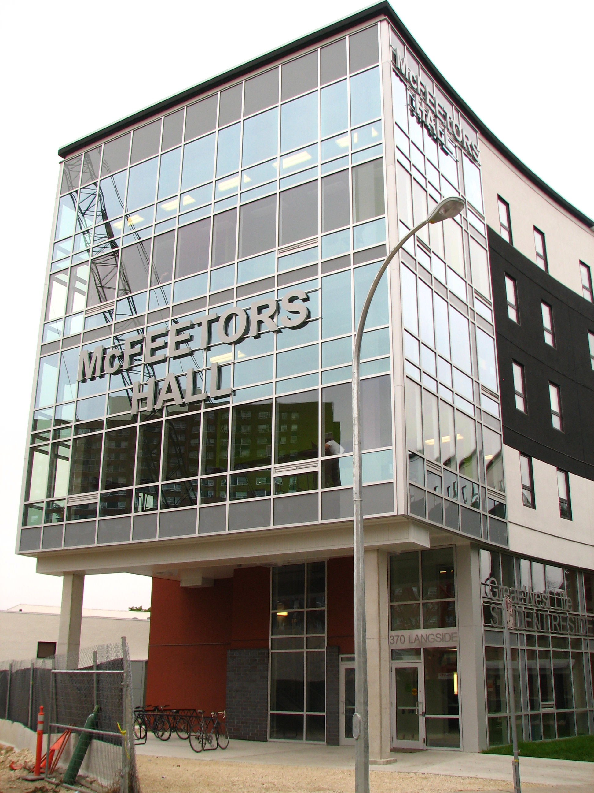 The new McFeetors Residence Hall built for the University of Winnipeg.